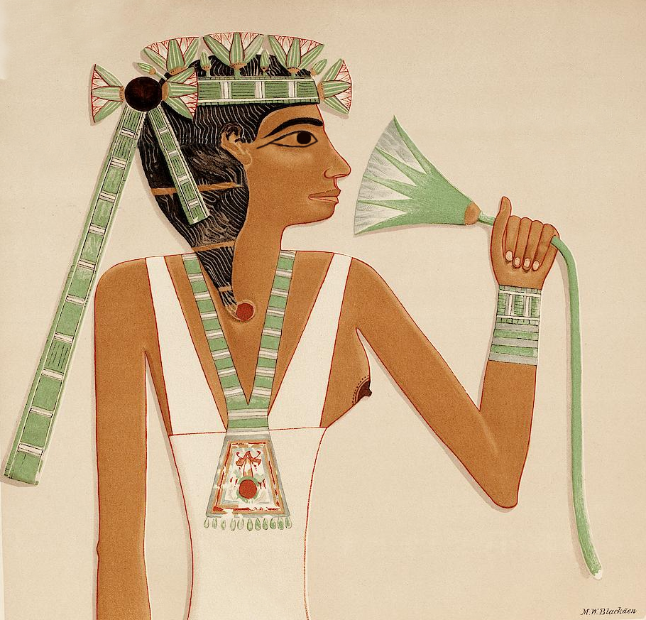 Portrait of a daughter of the ancient Egyptian nomarch Djehutihotep, depicted in his tomb at Deir el-Bersha. Times of Senusret III, 12th Dynasty, Middle Kingdom.